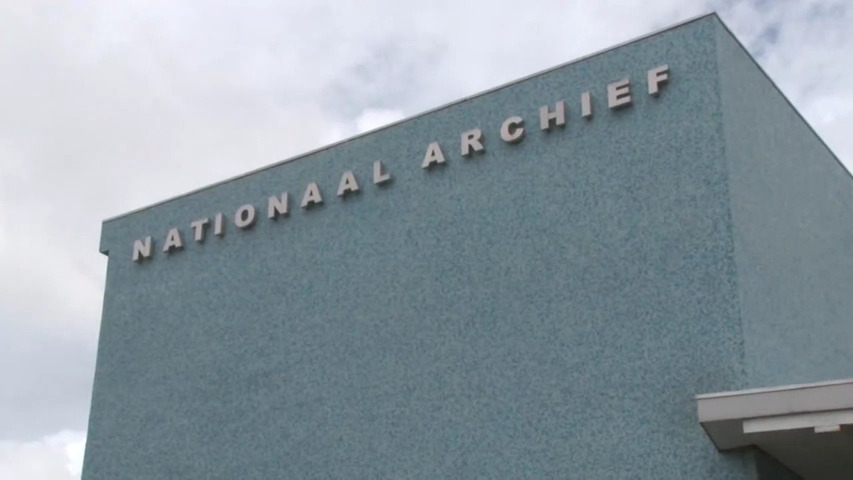 Gebouw van het archief